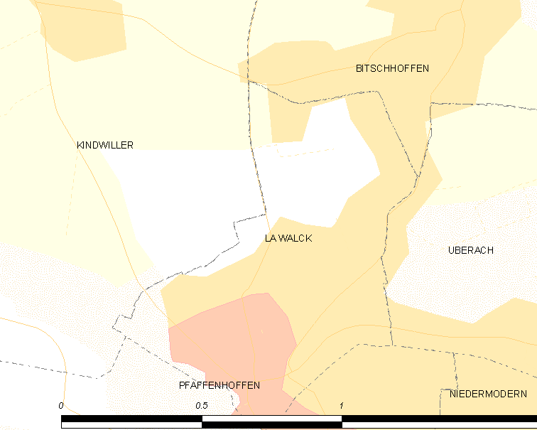 Map of French municipality